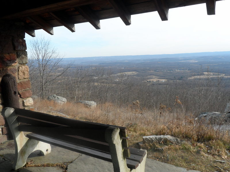 frankford nj